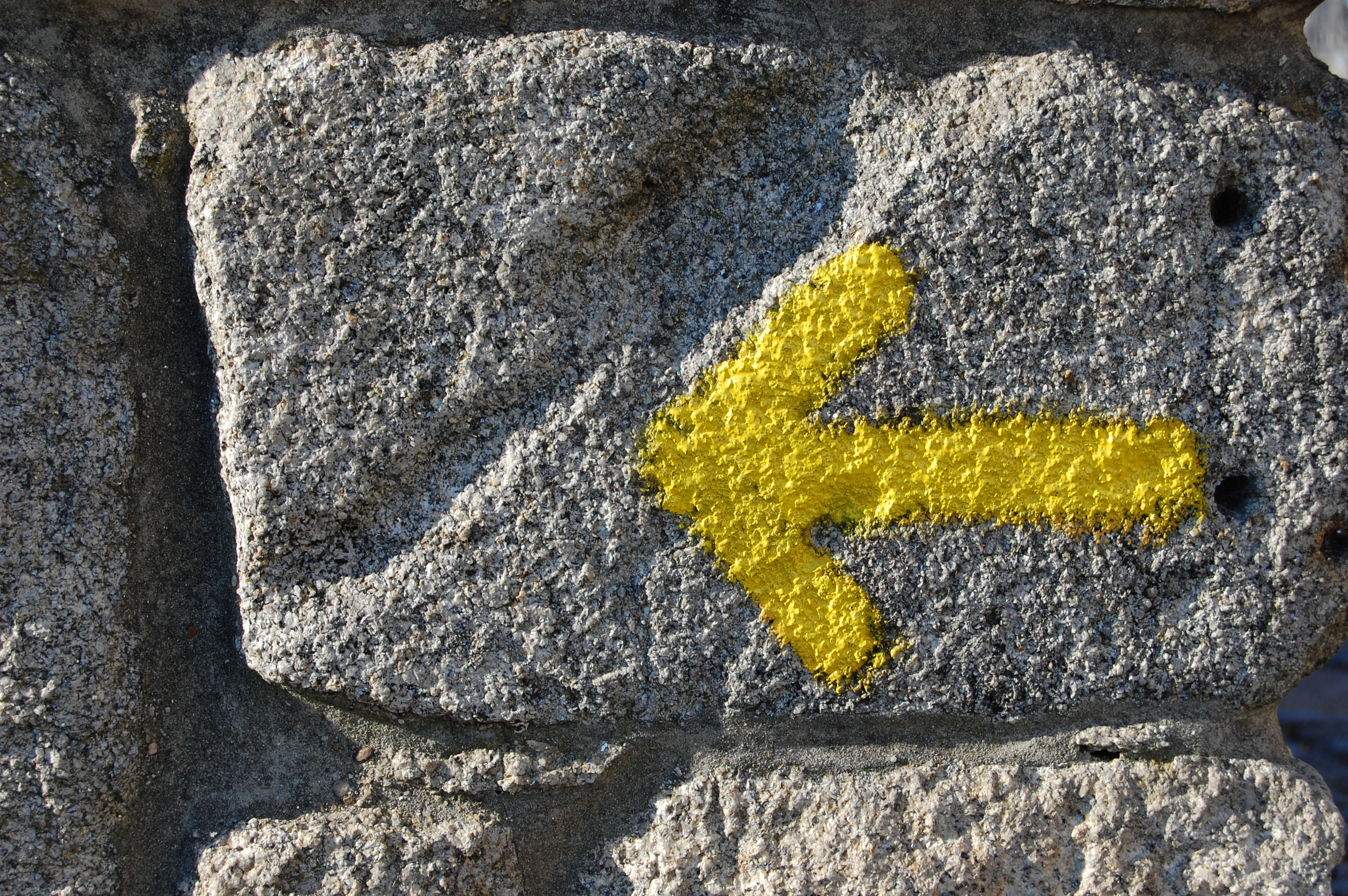 Painted arrow along the Camino de Santiago